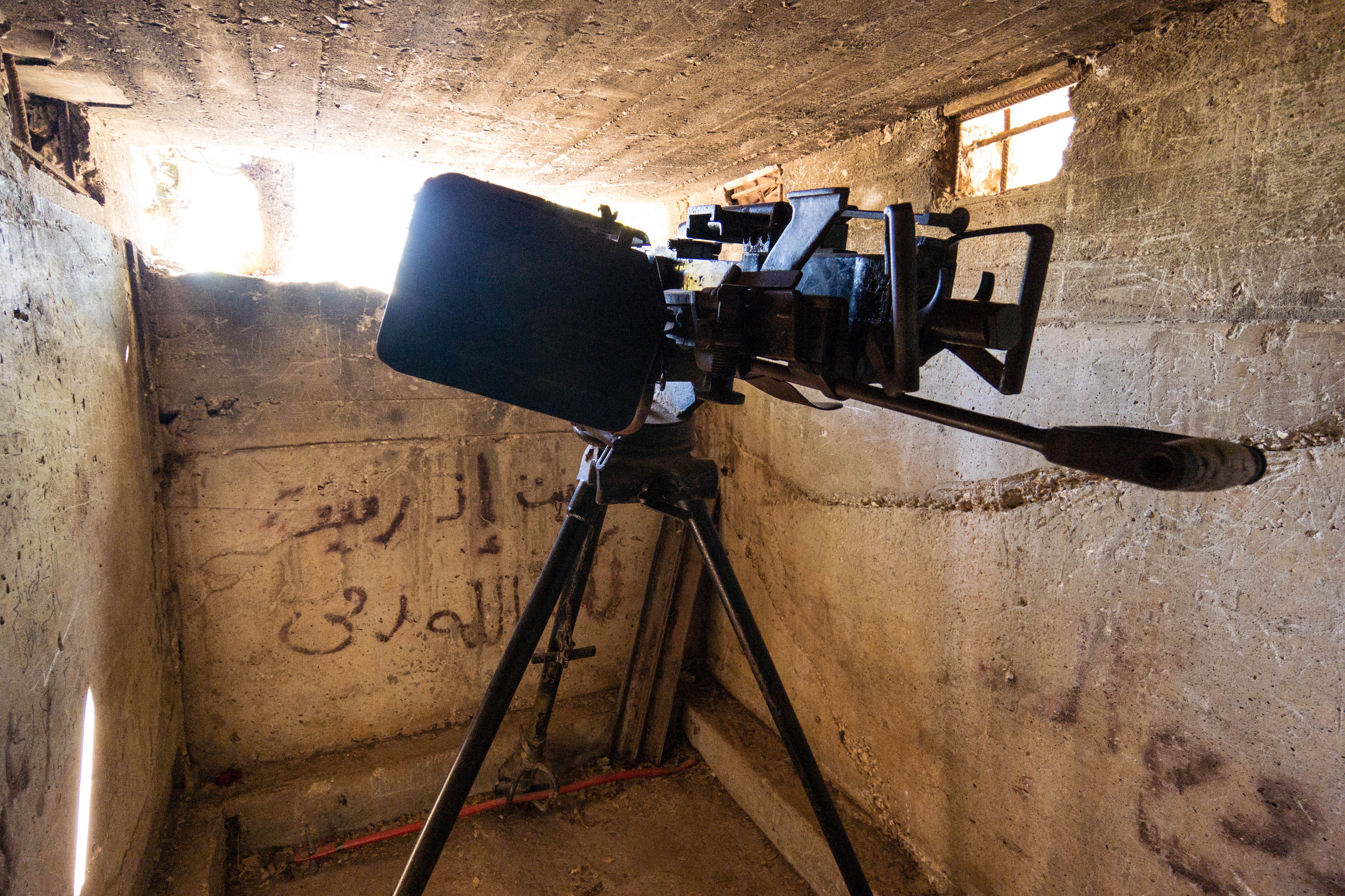 A Hezbollah DShK heavy machine gun in a bunker in their museum in Mleeta, Lebanon.